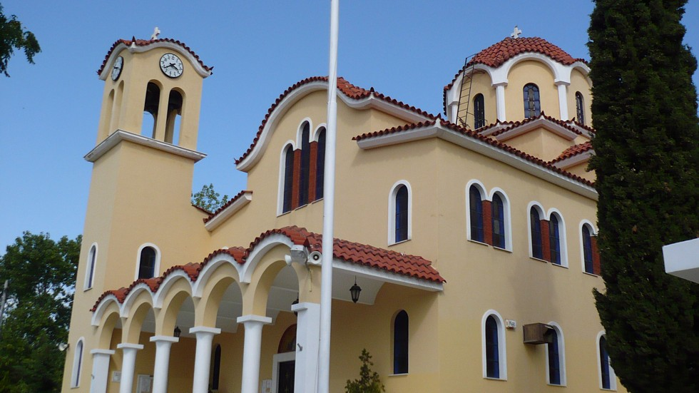 Anthoussa